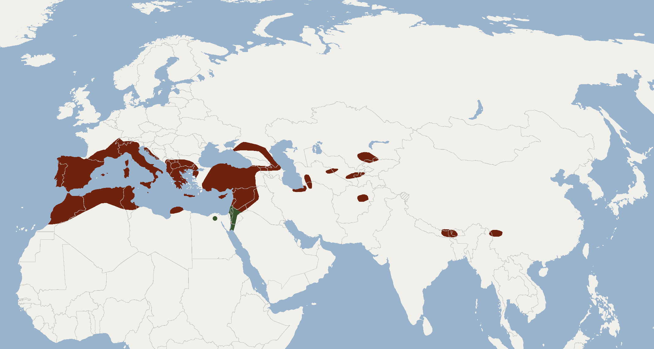 According to Happold & Happold, 2013, Aulagnier & al., 2011, IUCNRedlist